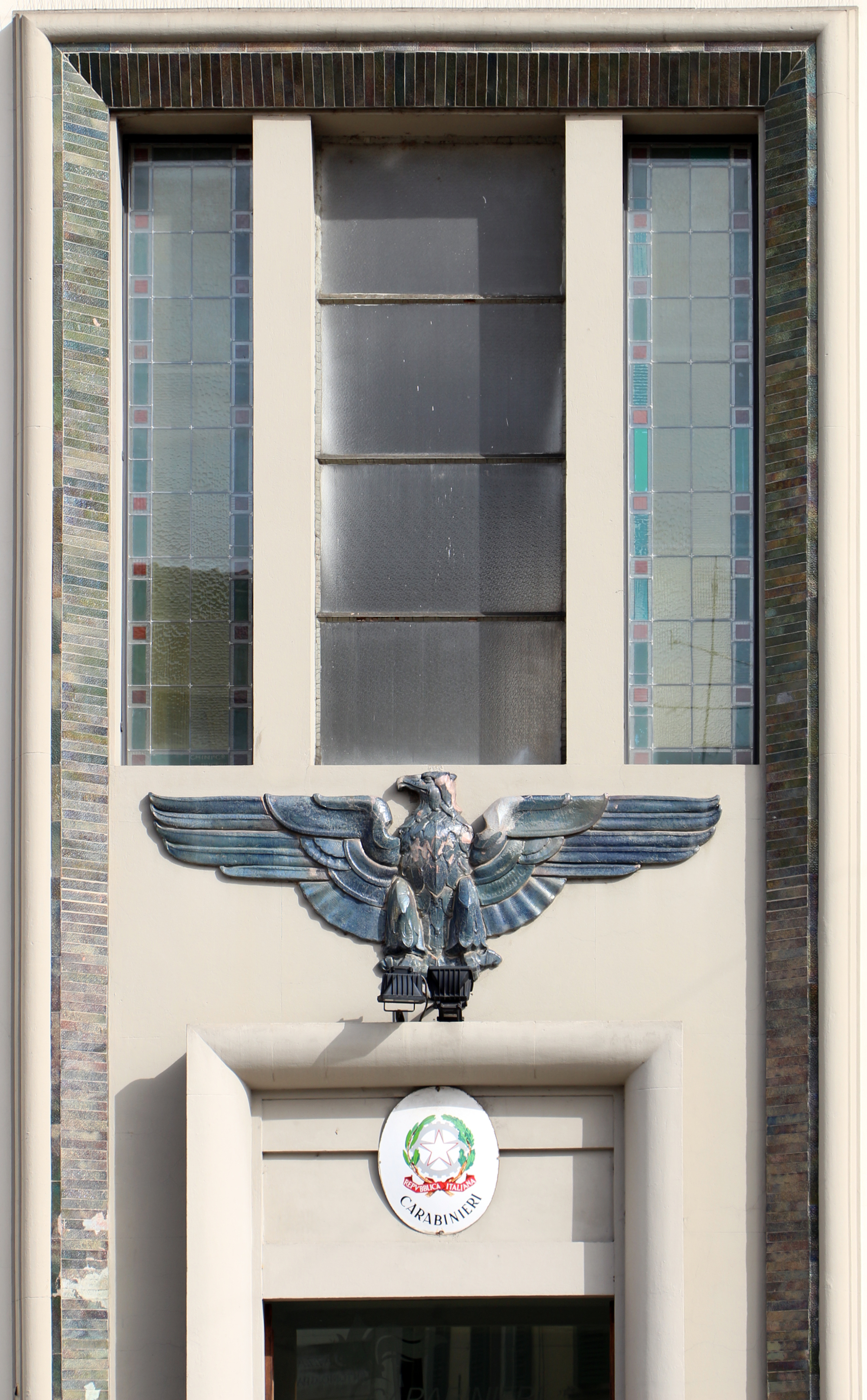 Borgo San Lorenzo